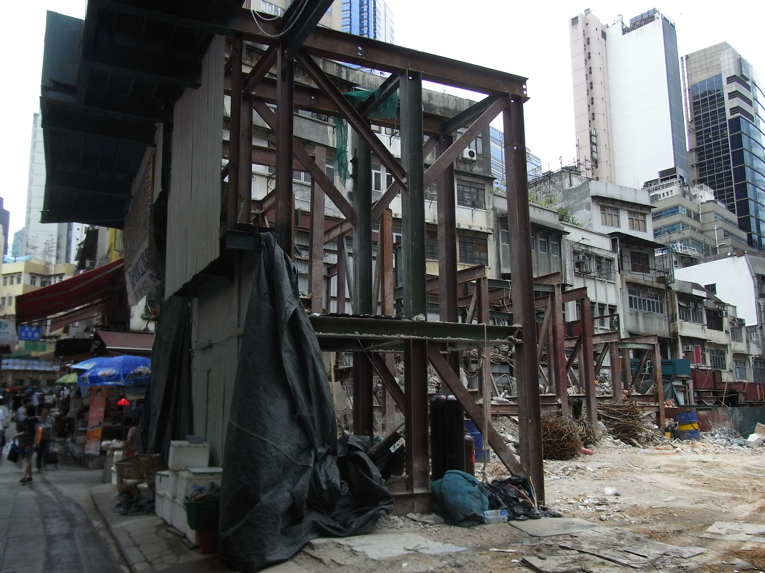 中環, Central, Hong Kong